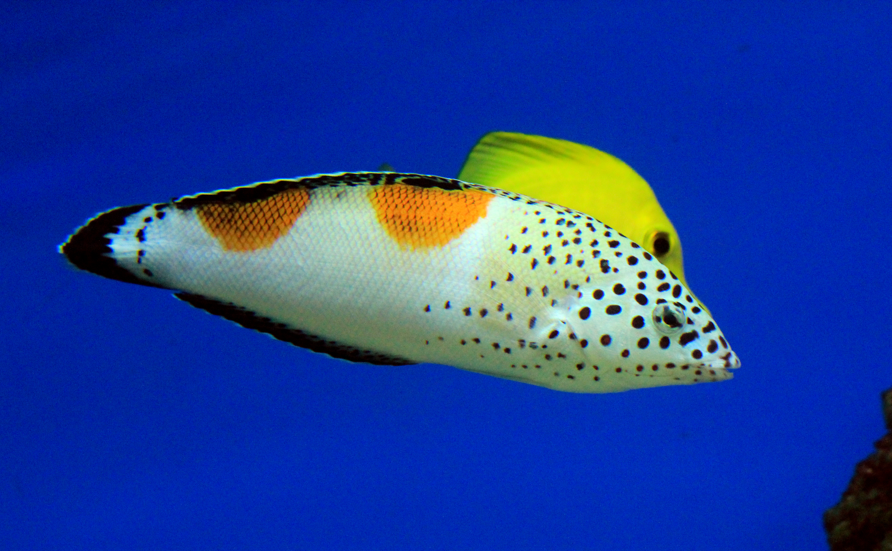 Fish Clown coris, (Coris aygula) in Prague sea aquarium “Sea world”, Czech Republic